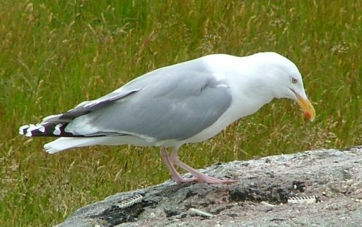 Photo taken by me of Larus argentatus in Norway